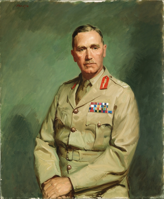 Portrait of Lieutenant-General the Honourable Sir Edmund Herring (1892-1982)